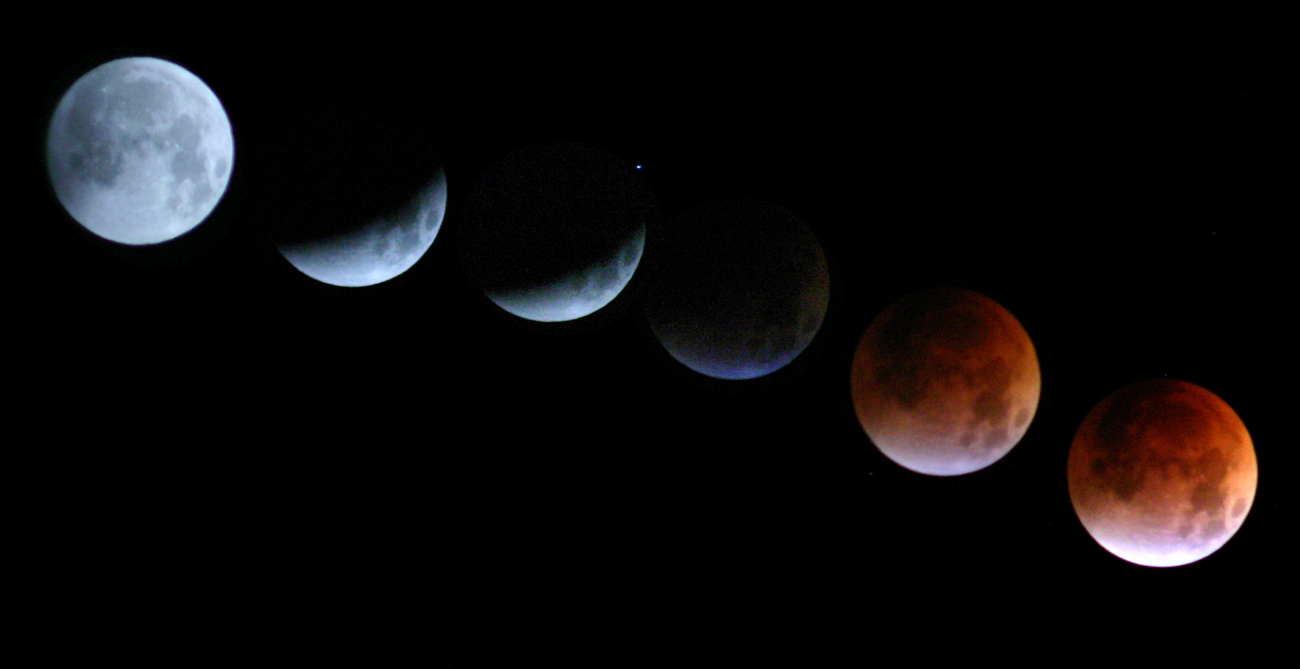 Eclipse montage. Digital overlay in Photoshop, because, well, it's digital, so it had to be done that way. But in the style of the old film multi-exposure shots of yore.